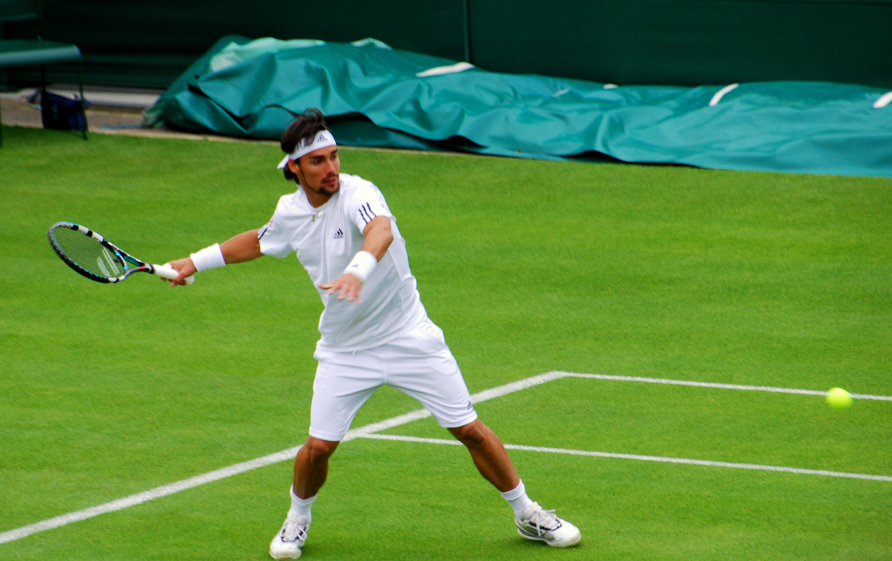 Fabio Fognini hits a forehand at Wimbledon 2013.